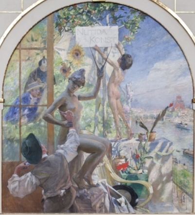 Contemporary art. From Larsson's 1888 triptych "Rococo - Renaissance - Contemporary art".